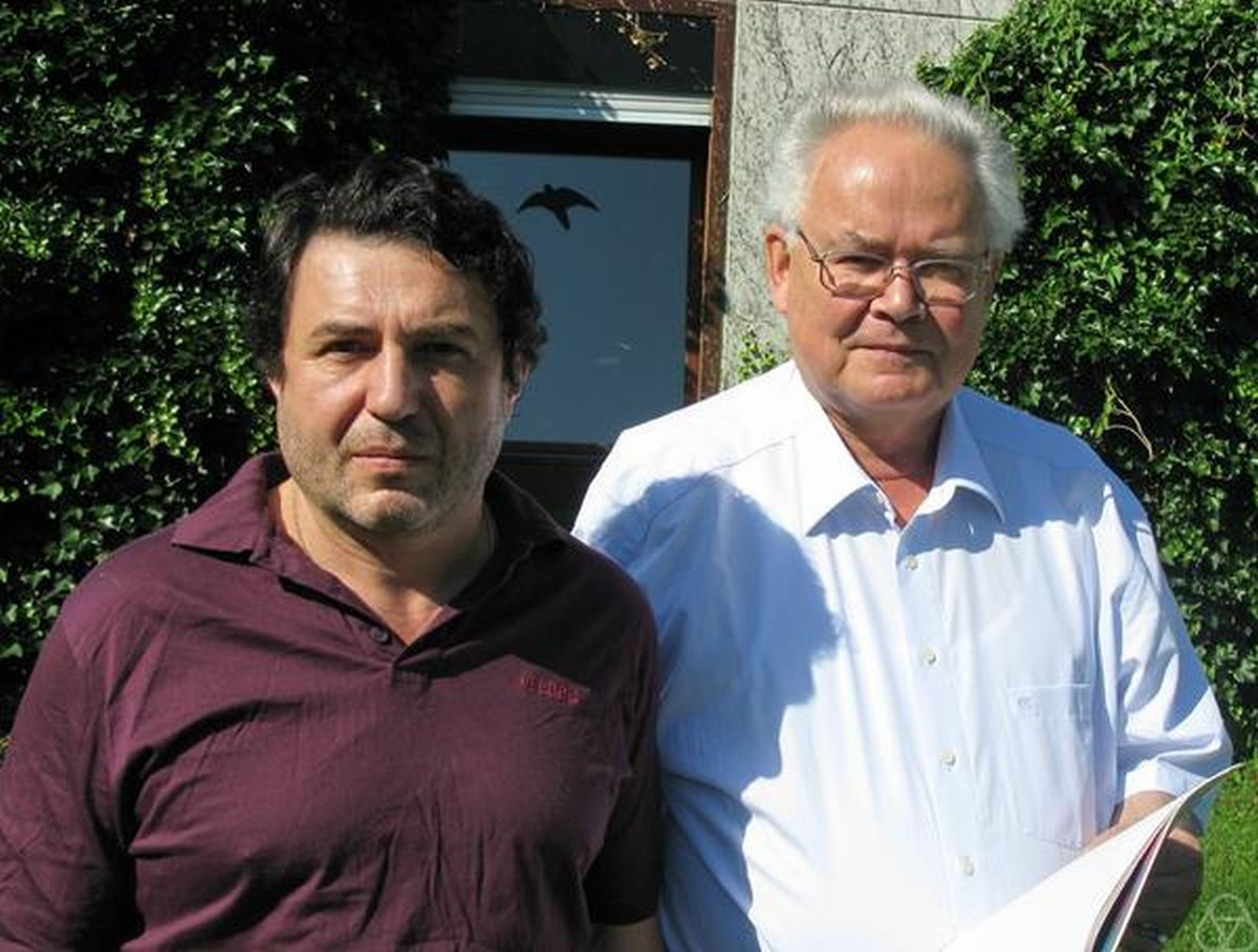 Nikolai Nadirashvili (left) with Stefan Hildebrandt, Oberwolfach 2009